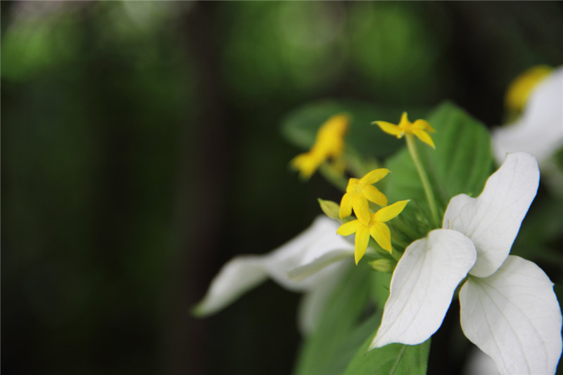 I belong to the group of climbing shrubs with terete branches, often extensively twining. One of or more than one of my sepals is foliated and white. I usually grow in the bushwood and valleys, or along the hillside. Cutting and seeding propagation are two main ways of my reproduction.